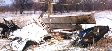 Photo of crash site - NTSB docket photo